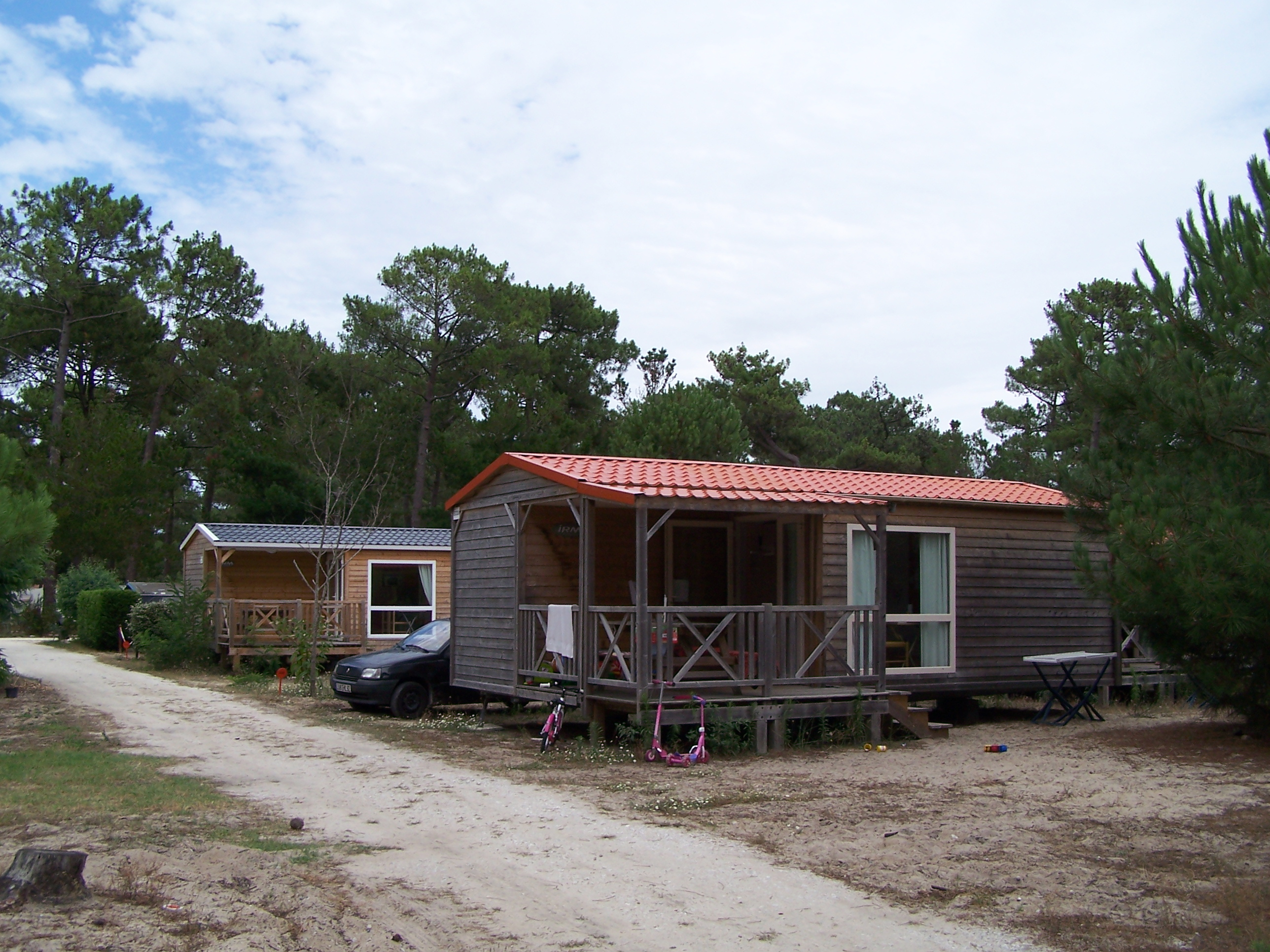 CHM montalivet, mobilhome area nammed ECUREUIL (squirrel)